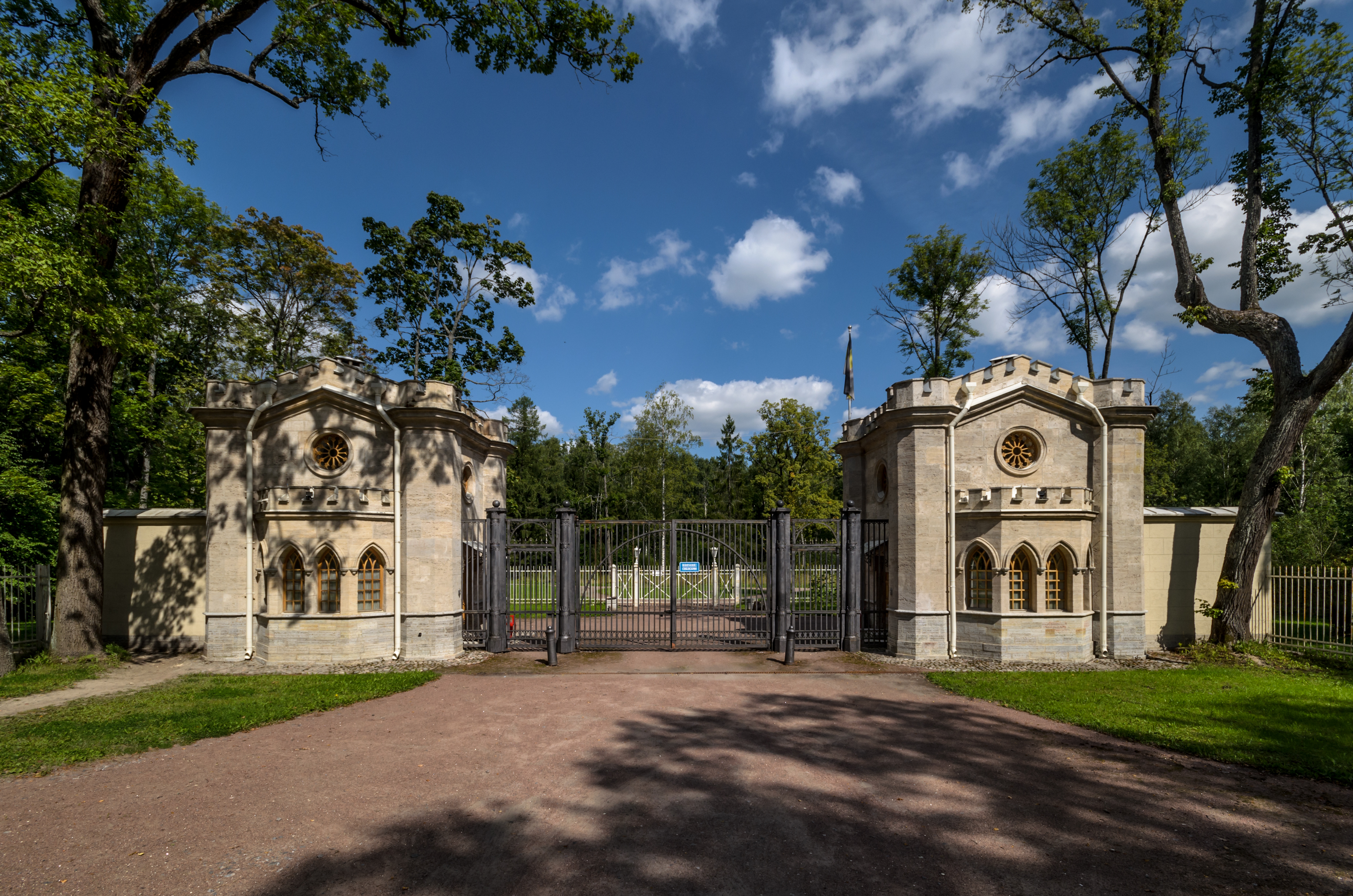 Krasnoselskie Gates in Alexandrovsky Park of Tsarskoe Selo